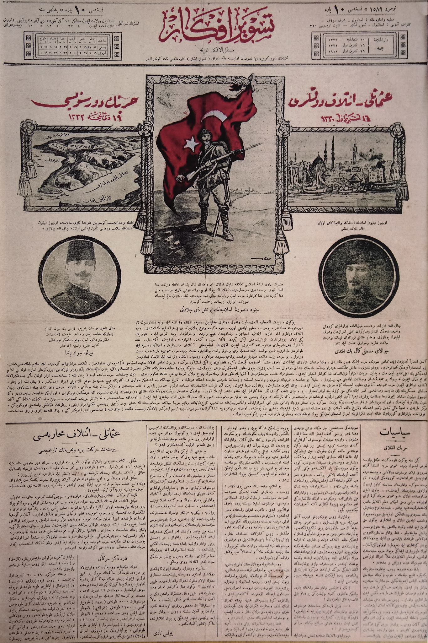 Cevat Pasha and Mustafa Kemal Bey on the daily Tasvîr-i Efkâr dated October 29, 1915. Kemal Atatürk (or alternatively written as Kamâl Atatürk, Mustafa Kemal Pasha until 1934, commonly referred to as Mustafa Kemal Atatürk; 1881 – 10 November 1938) was a Turkish field marshal, revolutionary statesman, author, and the founding father of the Republic of Turkey, serving as its first President from 1923 until his death in 1938. He undertook sweeping progressive reforms, which modernized Turkey into a secular, industrial nation. Ideologically a secularist and nationalist, his policies and theories became known as Kemalism. Due to his military and political accomplishments, Atatürk is regarded as one of the most important political leaders of the 20th century.